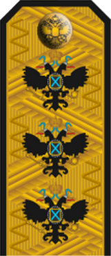 Rank insignia of the Imperial Russian Navy (IRB) until 1917, here "Admiral" .